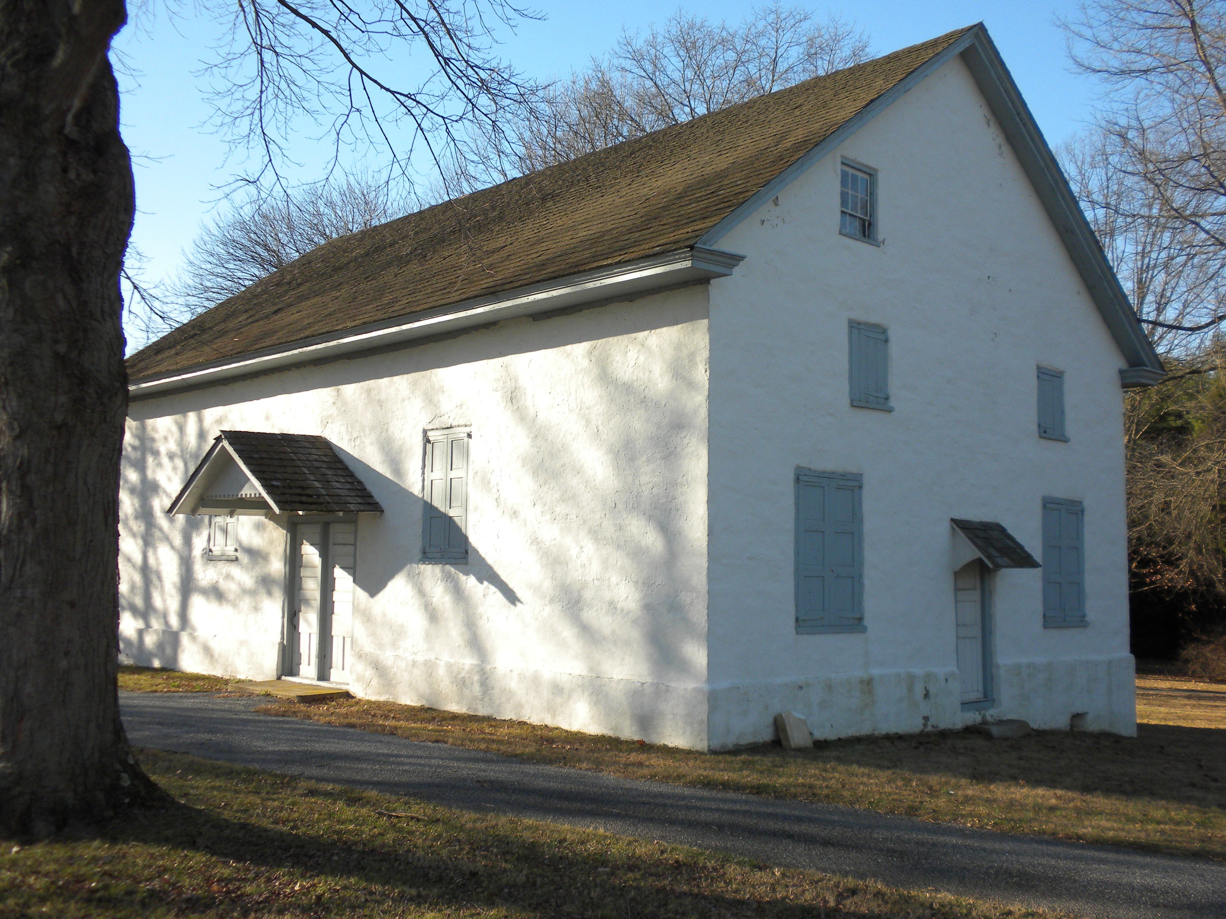 Kennett Meeting House (Quaker) near Kennett Square, PA in Chester County. On NRHP. Own work donated to public domain.